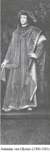 Anton van Glymes van Bergen, 1. Markgraf von Bergen op Zoom (1500-1541)